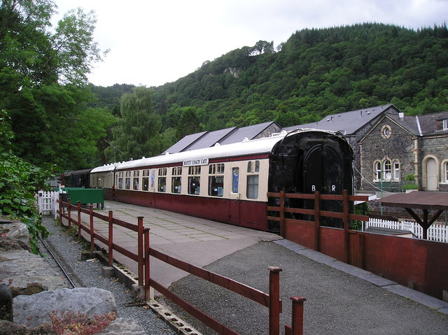 The Buffet Coach Café at the Railway Museum, Betws-y-Coed. The cafe is next to the Miniature Railway station at Betws-Y-Coed.